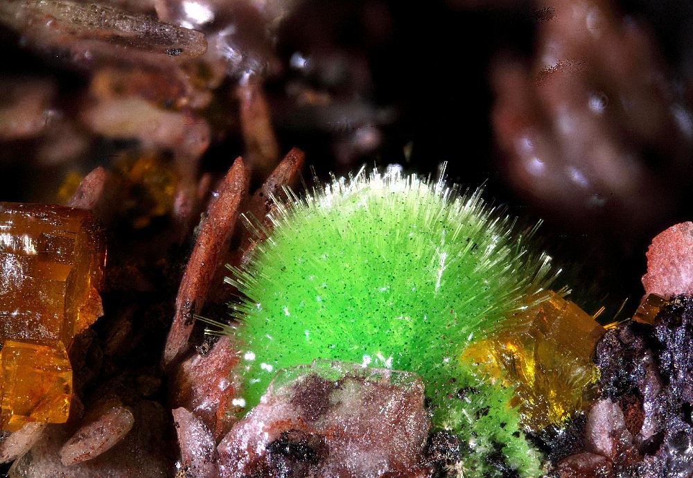 Light-green acicular, sperical cuprosklodowskite with honey-yellow billietite from Krunkelbach mine, Menzenschwand, Germany (field of view: 6 mm)